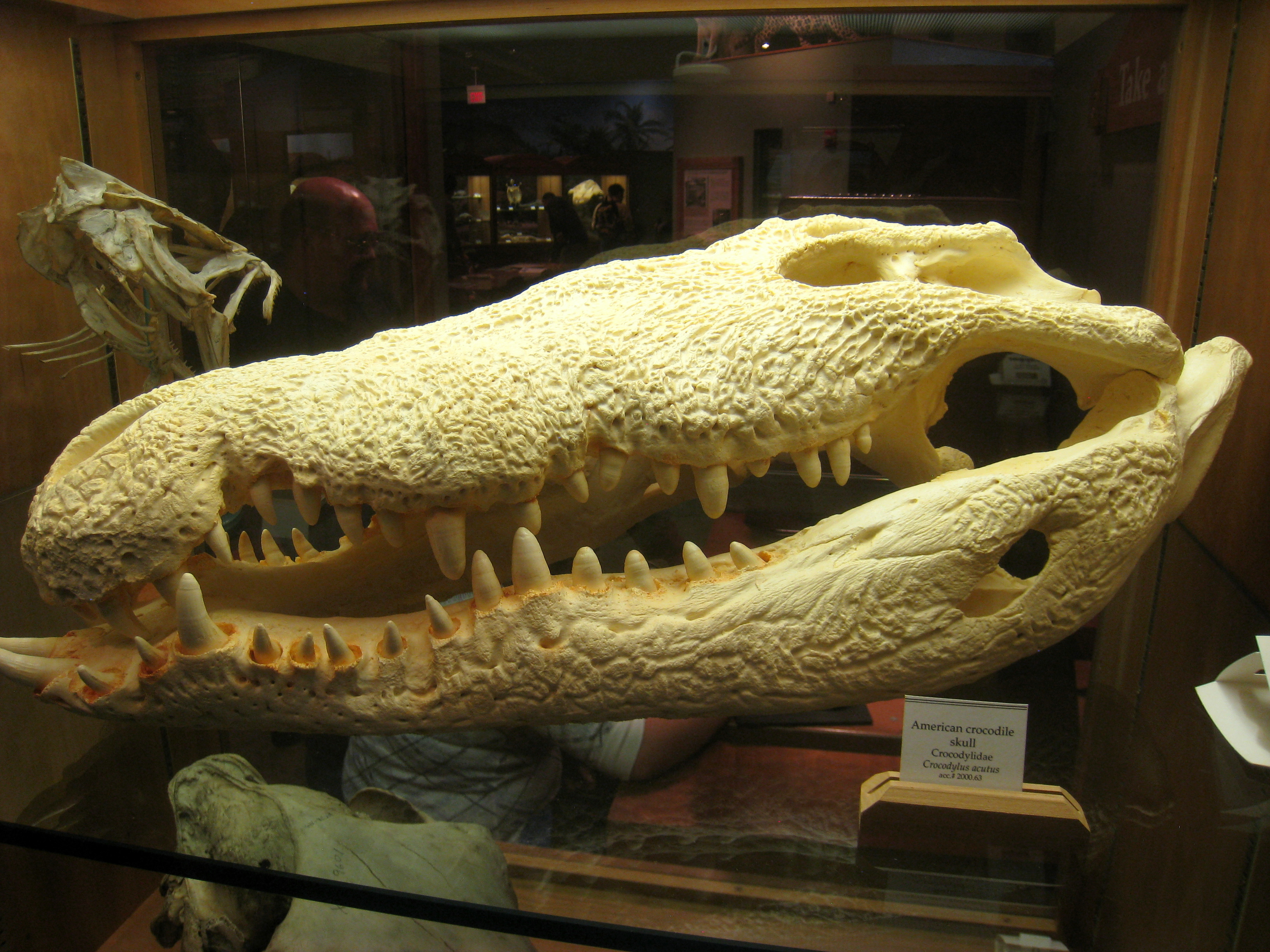 Skull of American crocodyle (Crocodylus acutus) in Museum of Science, Boston, Massachusetts, USA. Note that there was no prohibition against photography in the museum.